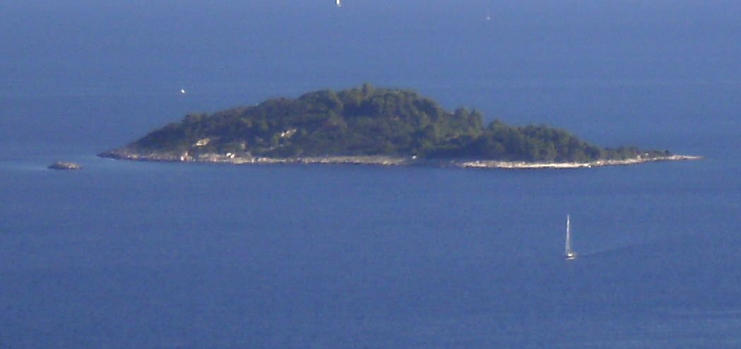 Islands of Sutvara and Škrpinjak OLYMPUS DIGITAL CAMERA